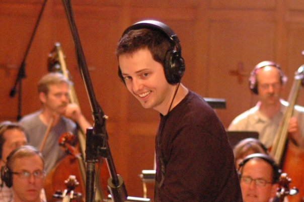 Jason Graves conducting an orchestra in 2009.